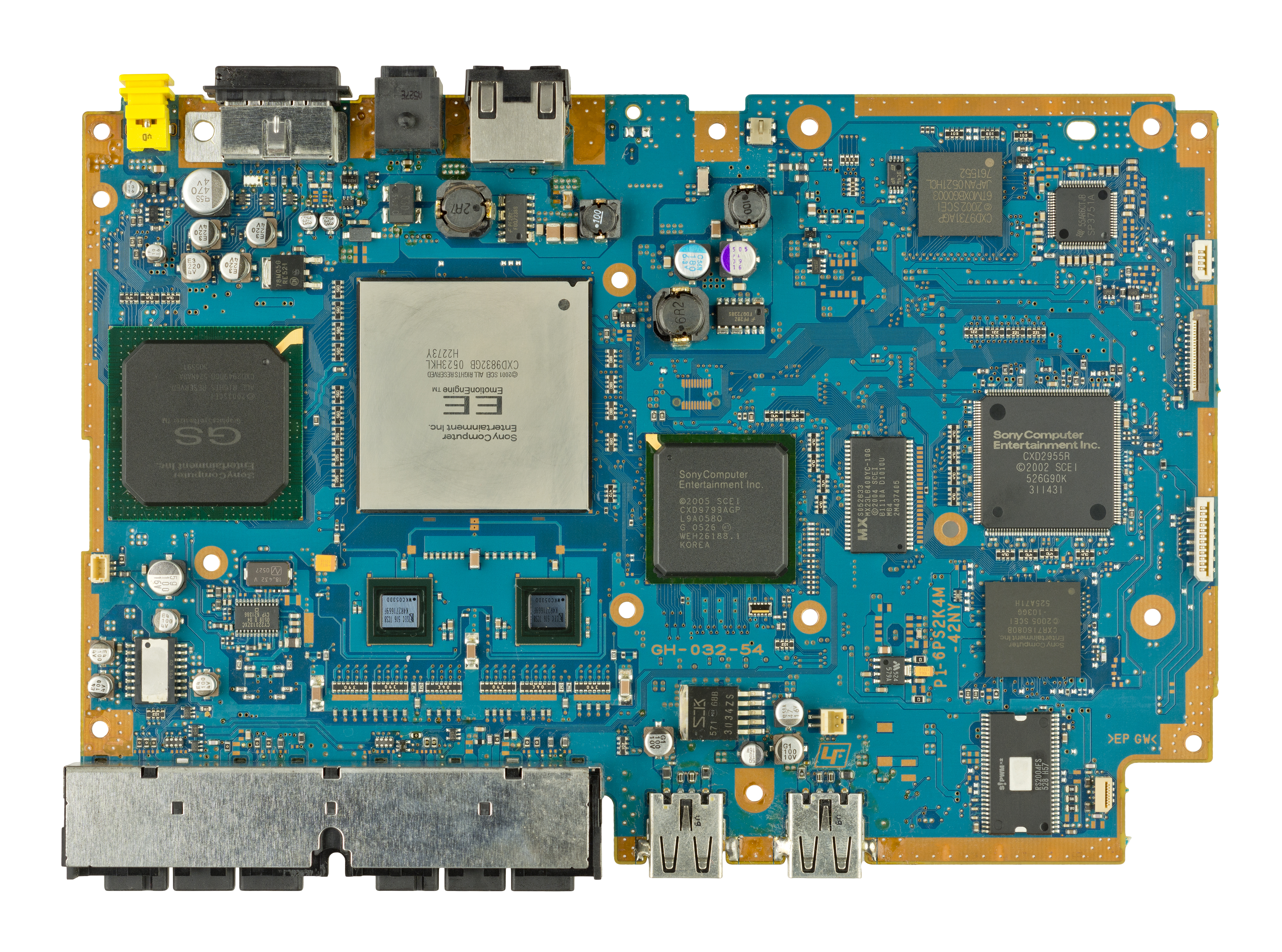 The motherboard for a Sony PlayStation 2 video game console. Specifically, the motherboard of a Slim SCPH-70001 series system. The CPU is the custom Emotion Engine chip, while the GPU is the custom Graphics Synthesizer.